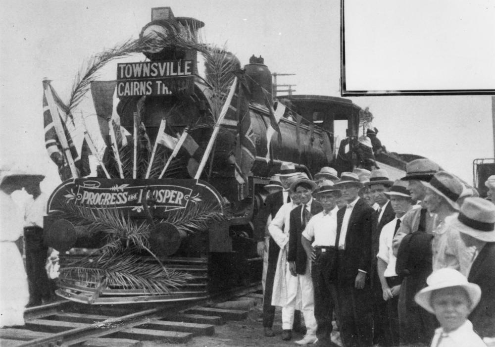 First Townsville train to cross the Daradgee Bridge over the Johnstone River, 1924.